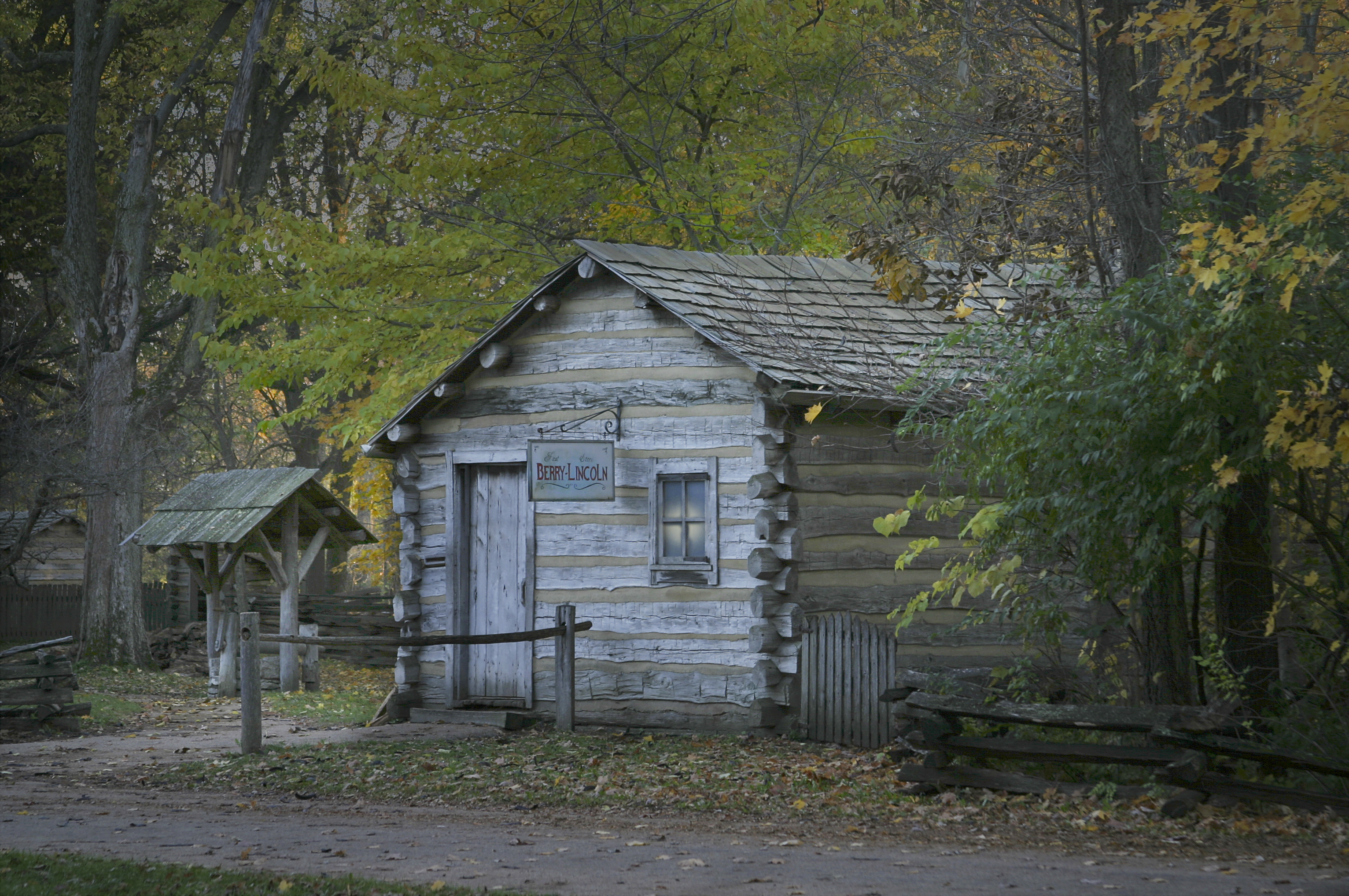 Berry/Lincoln Store and Post Office at New Salem, Illinois USA.